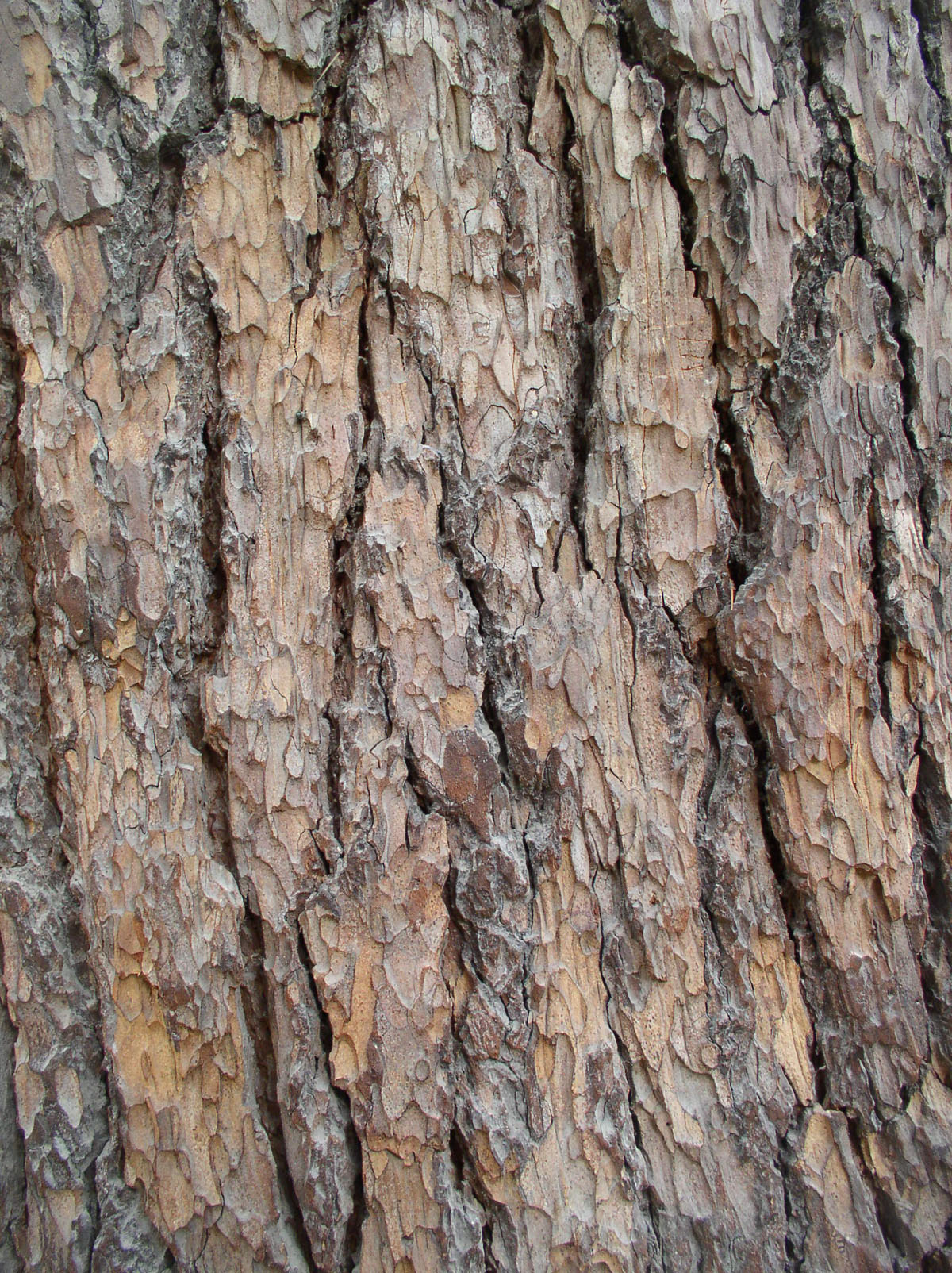 Bark of Cedrus libani, Jardin des Plantes, Paris